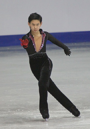 Denis TEN short program at the 2009 World Junior Figure Skating Championships